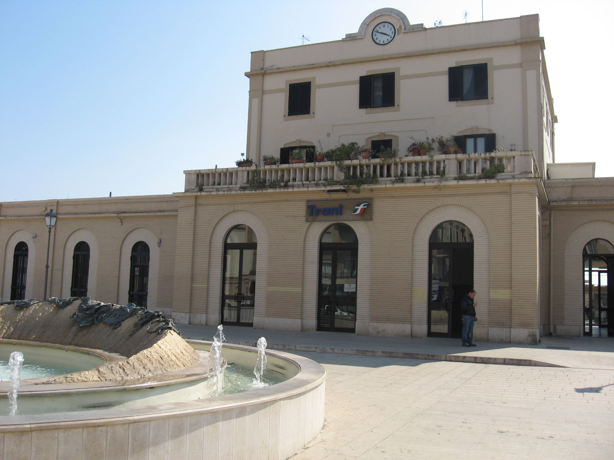 Trani train station